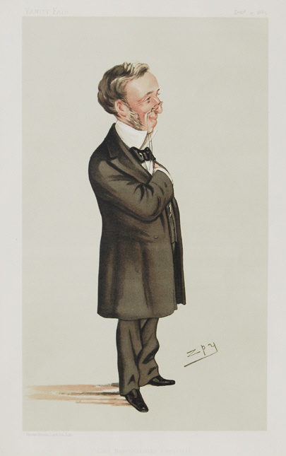 Caricature of Sir Richard Quain. Caption reads "Lord Beaconfield's Physician"